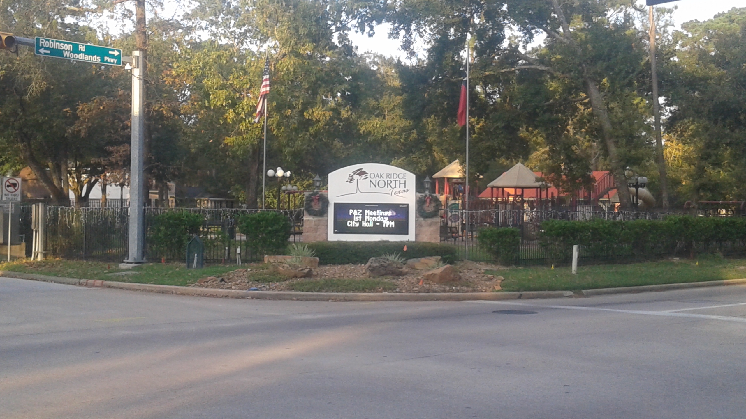 Sign marking the entrance to the city of Oak Ridge North, Texas.